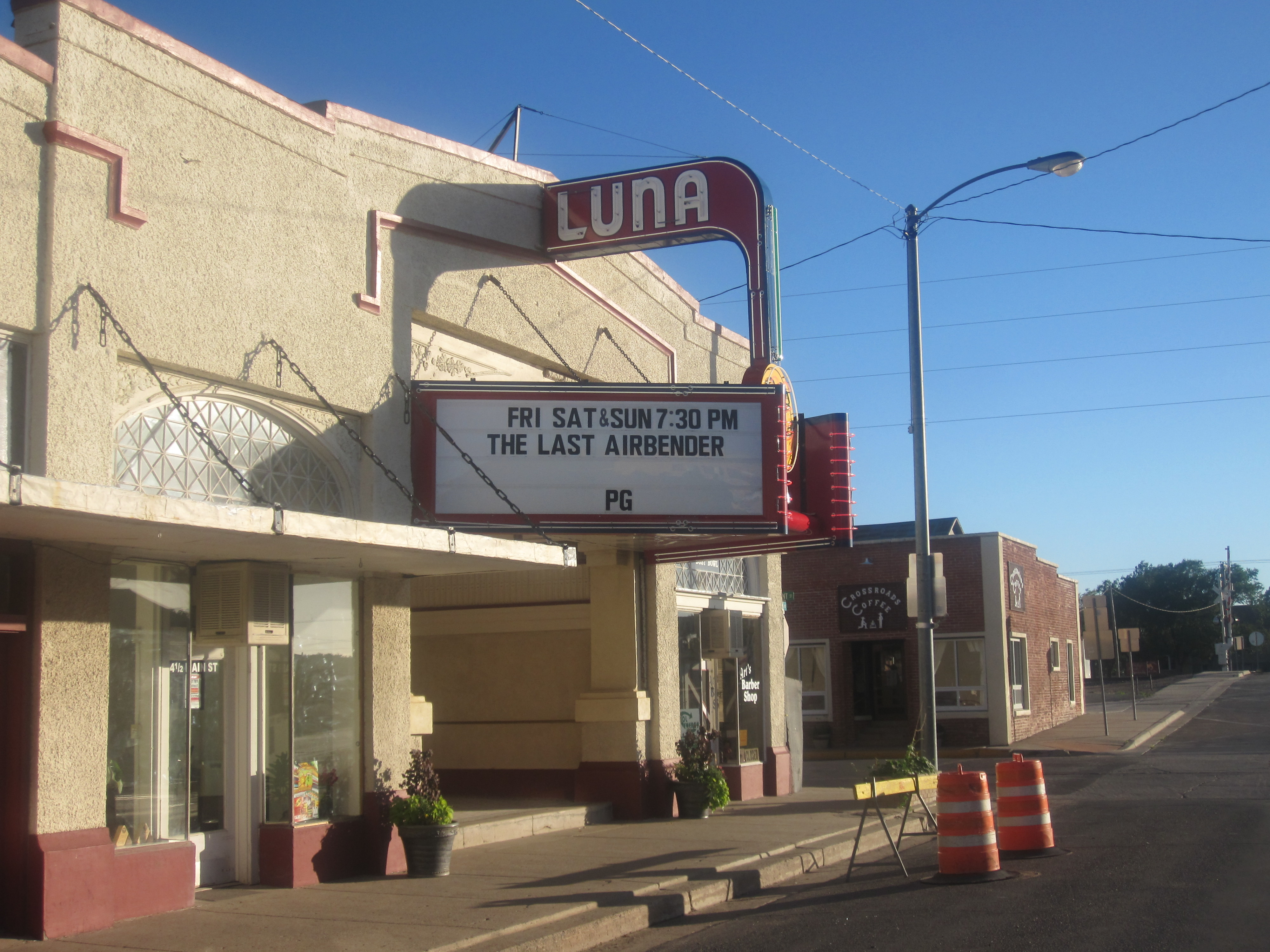 I took photo with Canon camera in Clayton, NM.